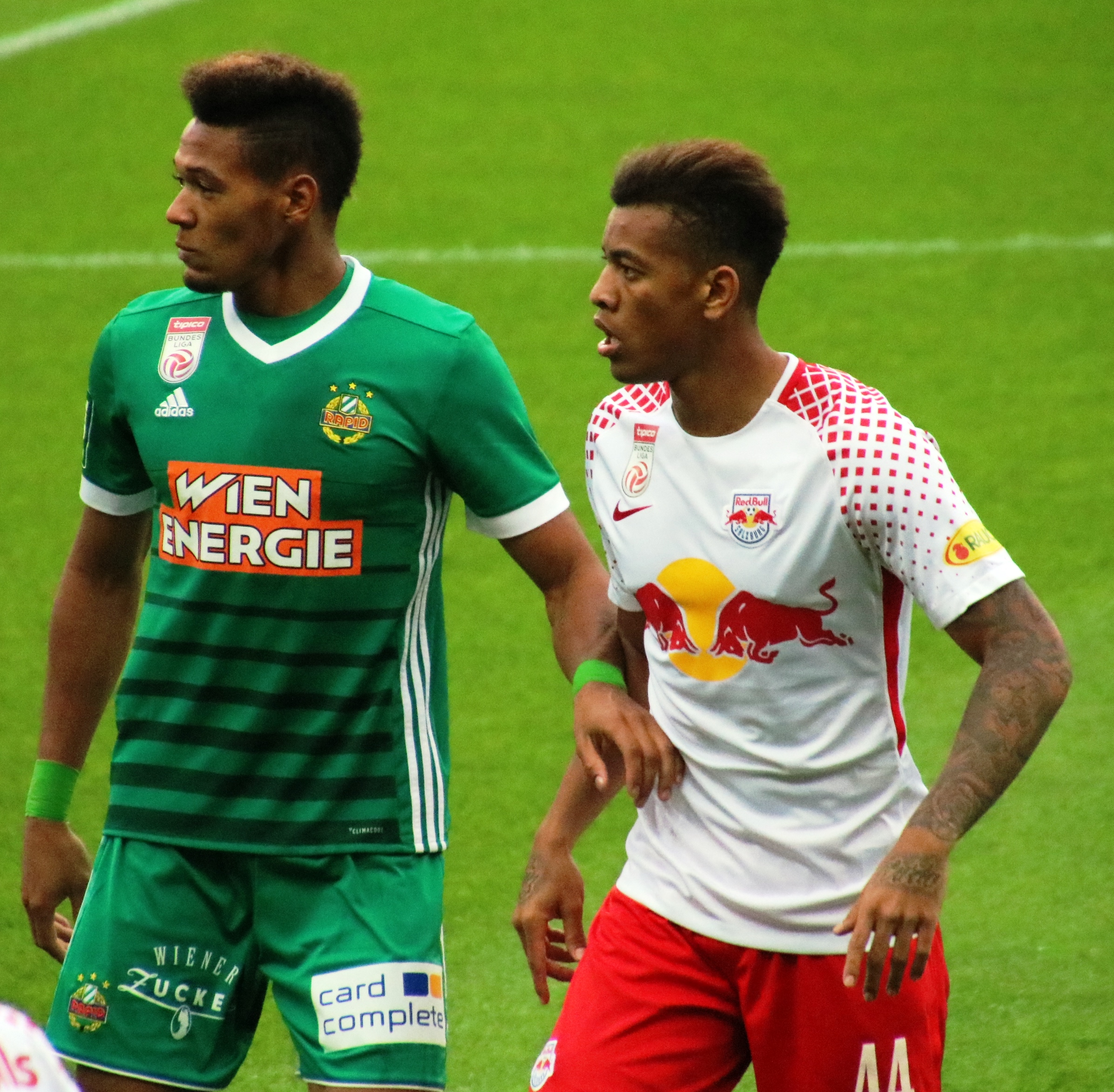 Austrian Bundesliga league match